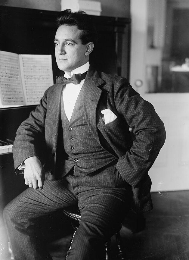 Hipolito Lazaro in 1917